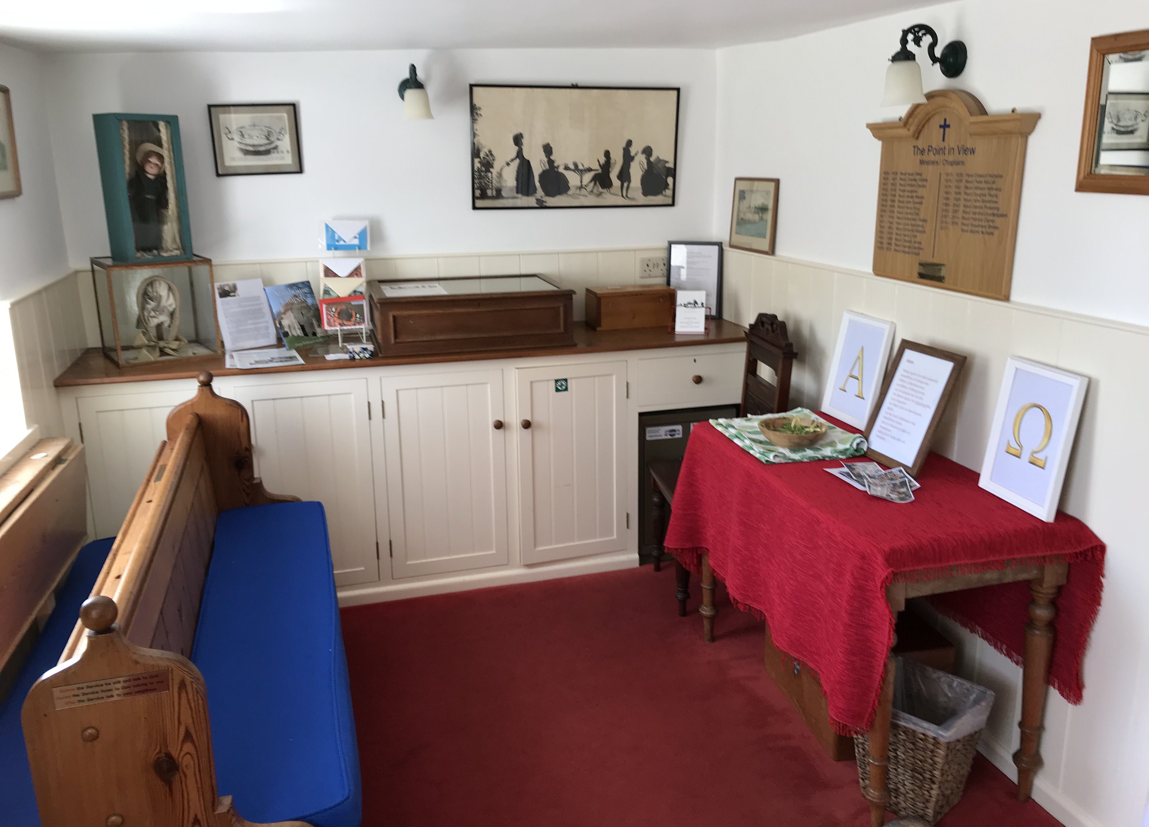 A side room at Point-in-View chapel at A La Ronde in Devon